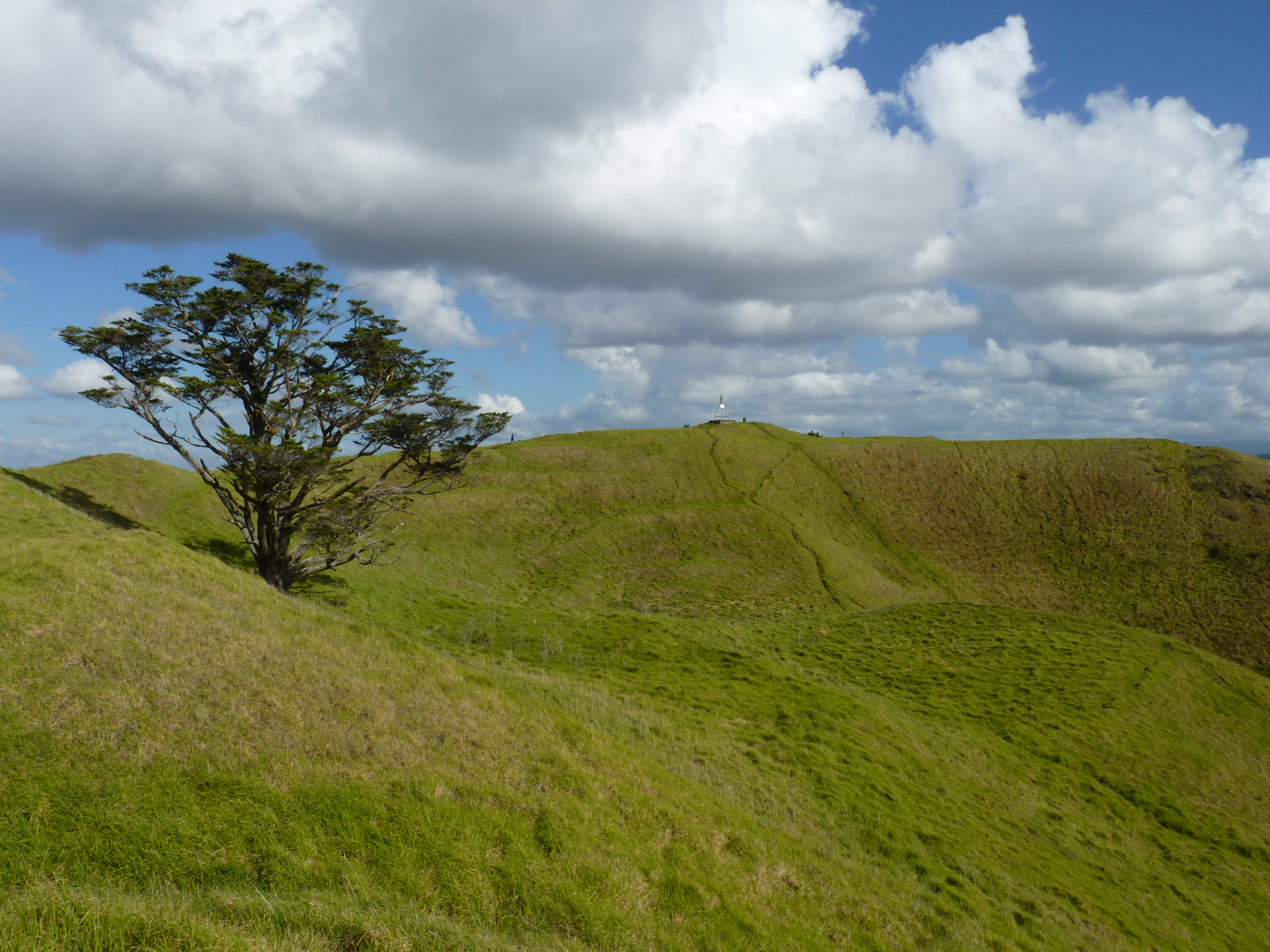 Mount Wellington, Auckland, New Zealand